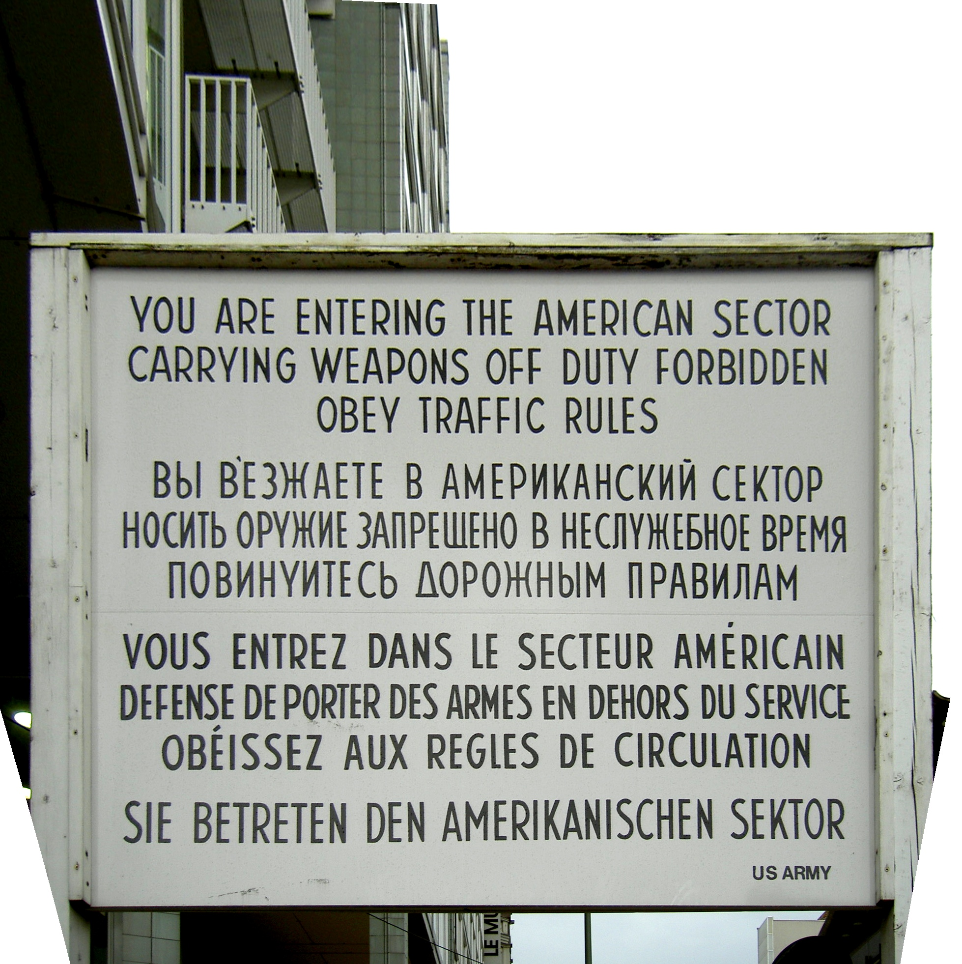 Checkpoint Charlie